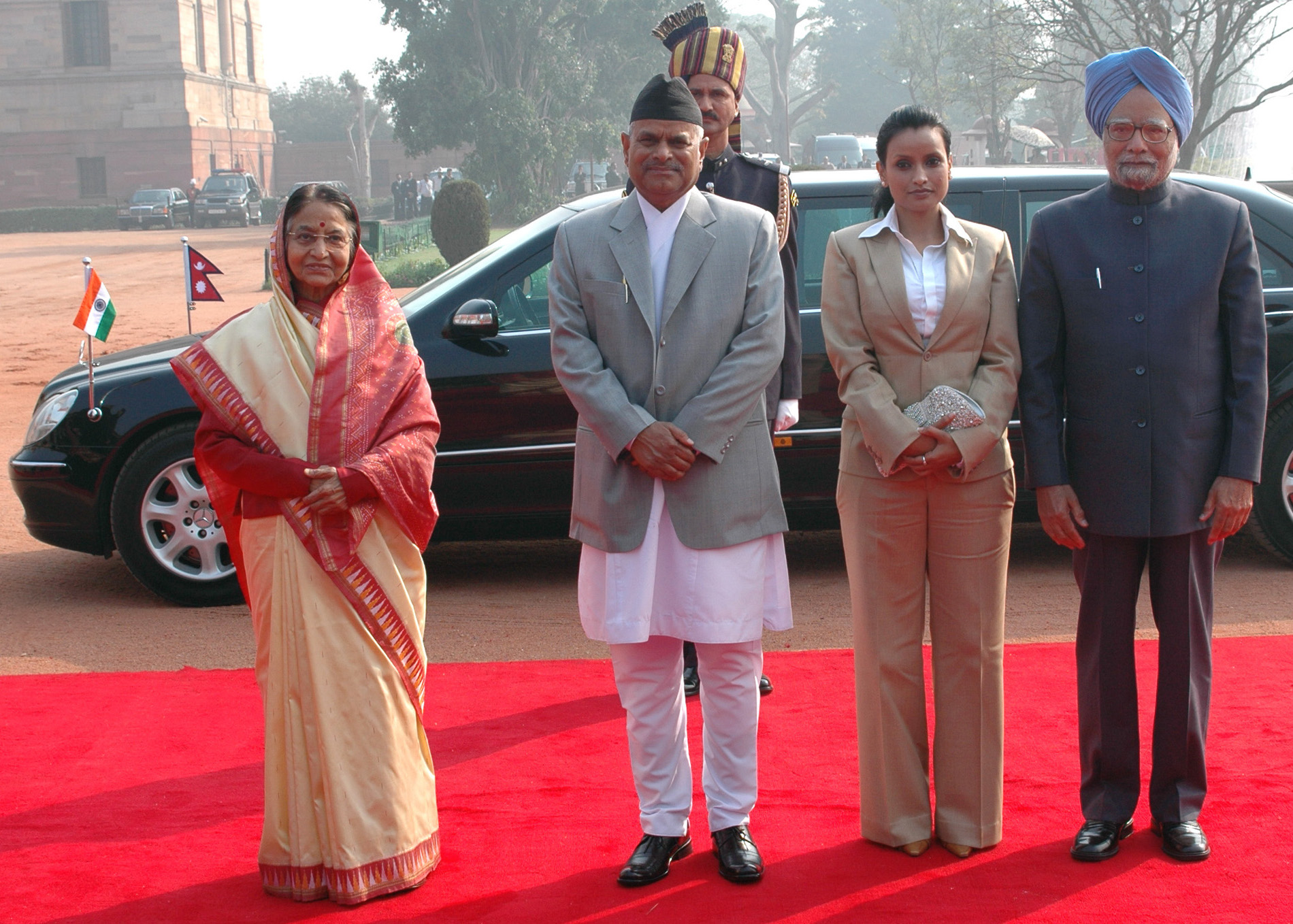 The President of Nepal, Dr. Ram Baran Yadav and his daughter Ms. Anita Yadav with the President, Smt. Pratibha Devisingh Patil and the Prime Minister, Dr. Manmohan Singh at the ceremonial reception, at Rashtrapati Bhawan, in New Delhi on February 16, 2010